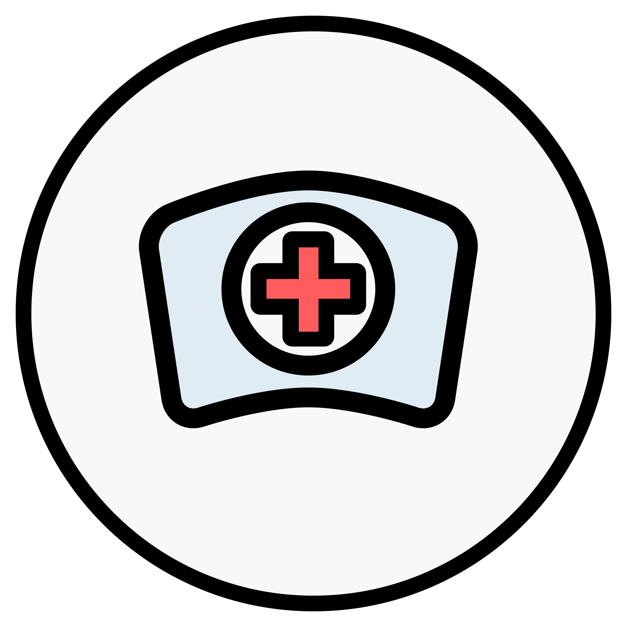 Set of icons about work and education